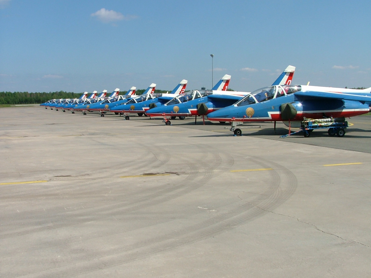 The Alpha Jet aircraft of Patrouille de France aerobatics team at Midnight Sun Airshow 2007 in Kauhava, Finland.